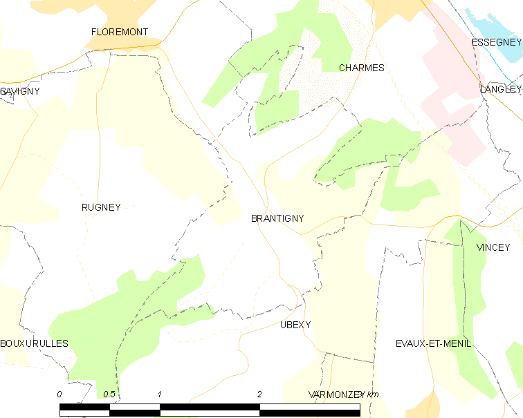 Map of French municipality Brantigny